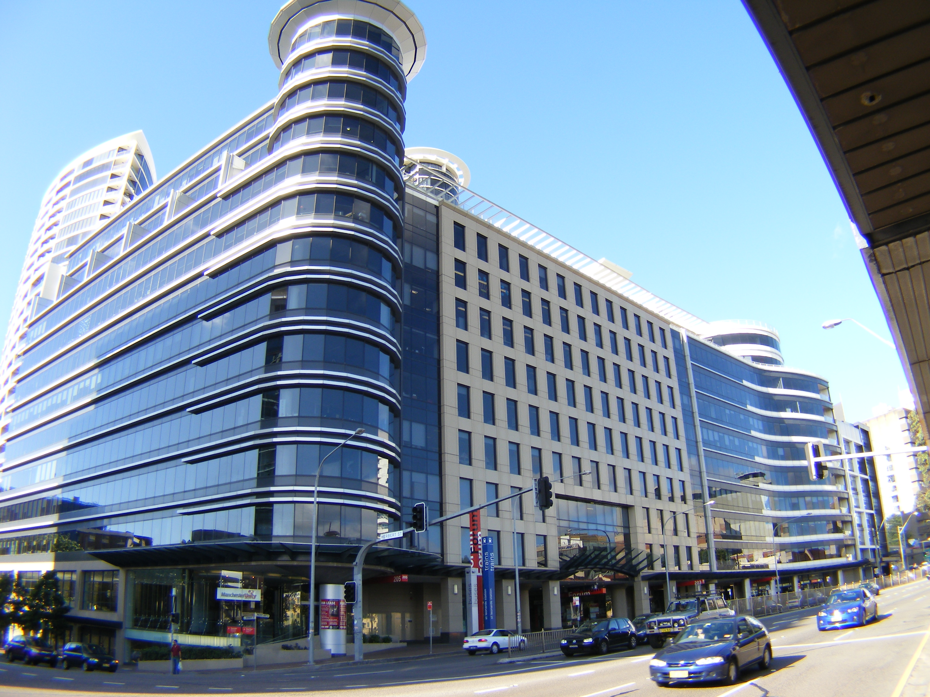 Commercial St Leonards